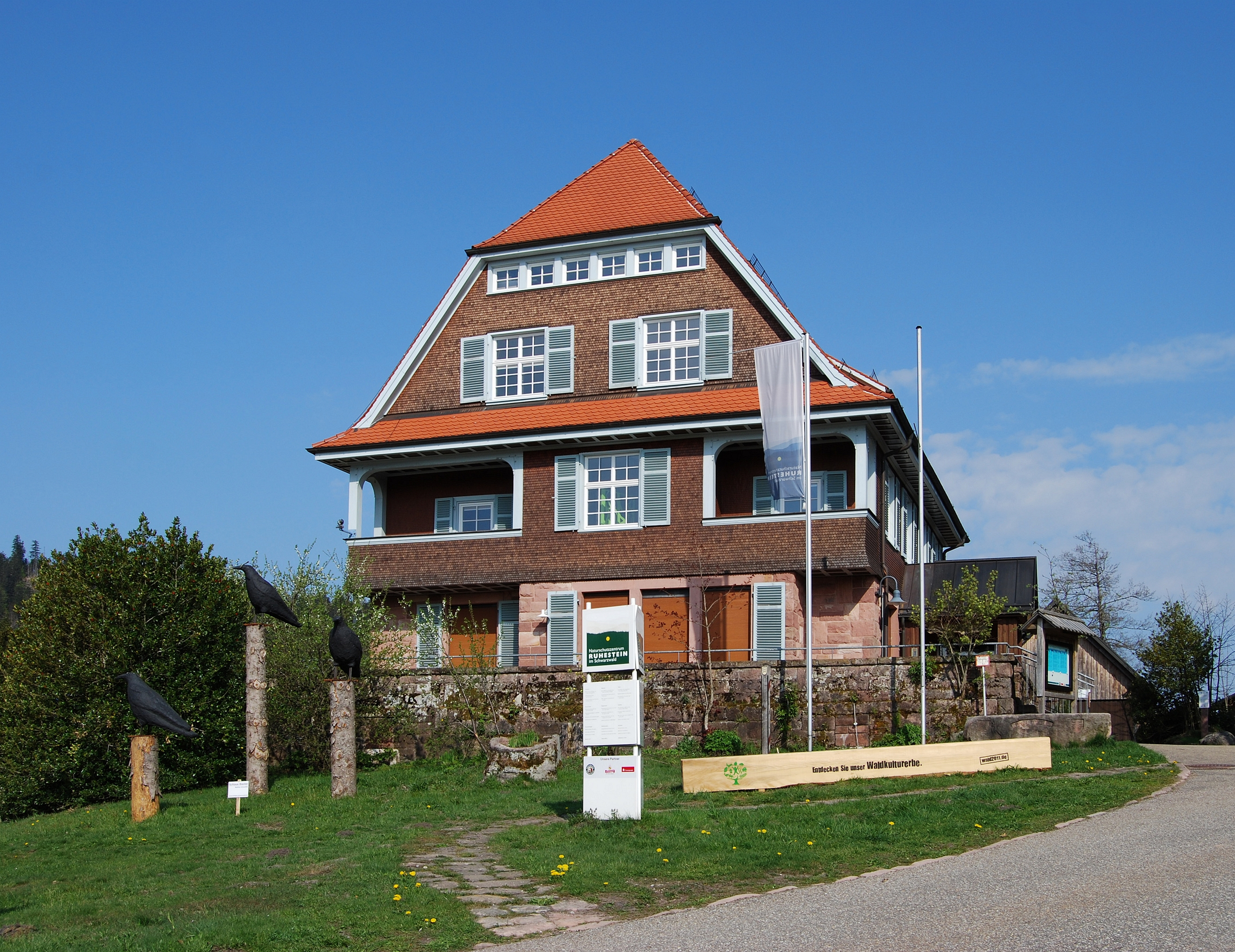 Center for nature protection Ruhestein, Northern Black Forest.